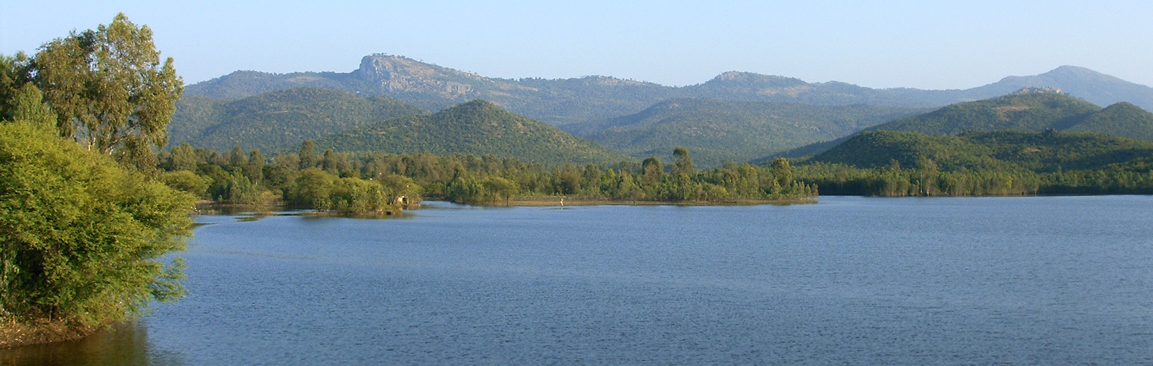 A view of the Biligirangan Hills range as seen from the Krishnayyana Katte reservoir at the foothills near the northern edge of the BR Hills Wildlife Sanctuary, just before the Gumballi checkpost. Photo shows a part of the reservoir and the North-South range with dry deciduous forest in late winter.